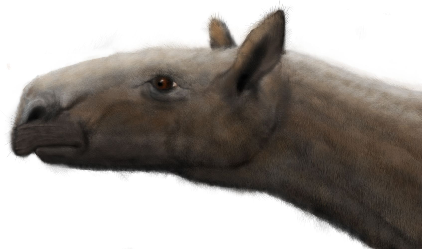 Life reconstruction of the Eocene indricotherine Forstercooperia totadentata.